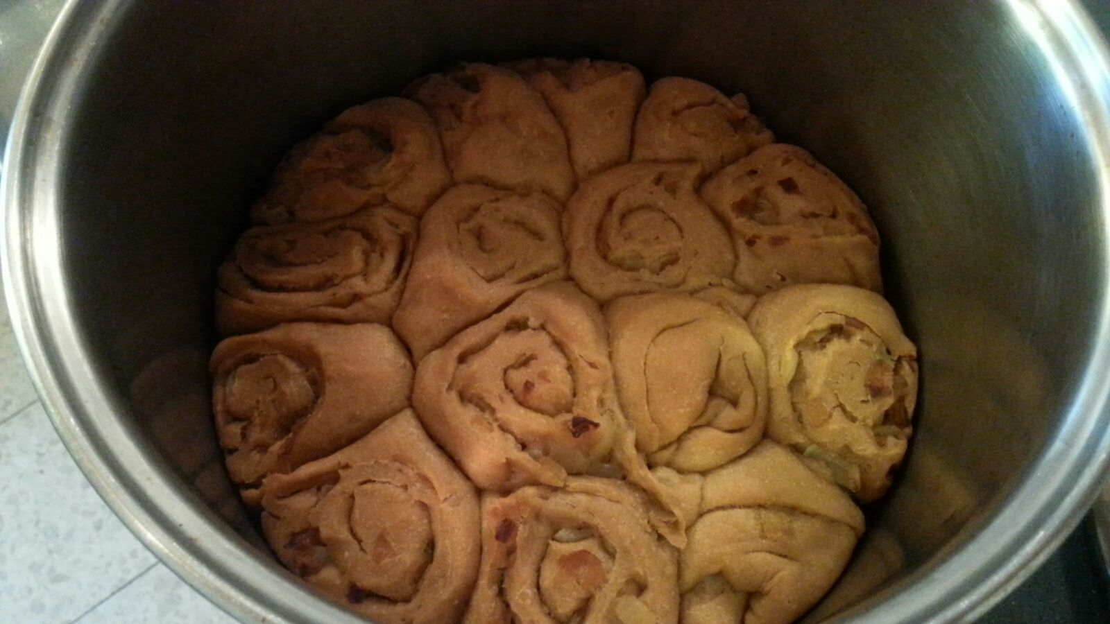 Kubaneh with onion